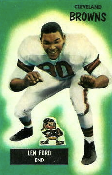 Len Ford, American football defensive end, on a 1955 Bowman football card